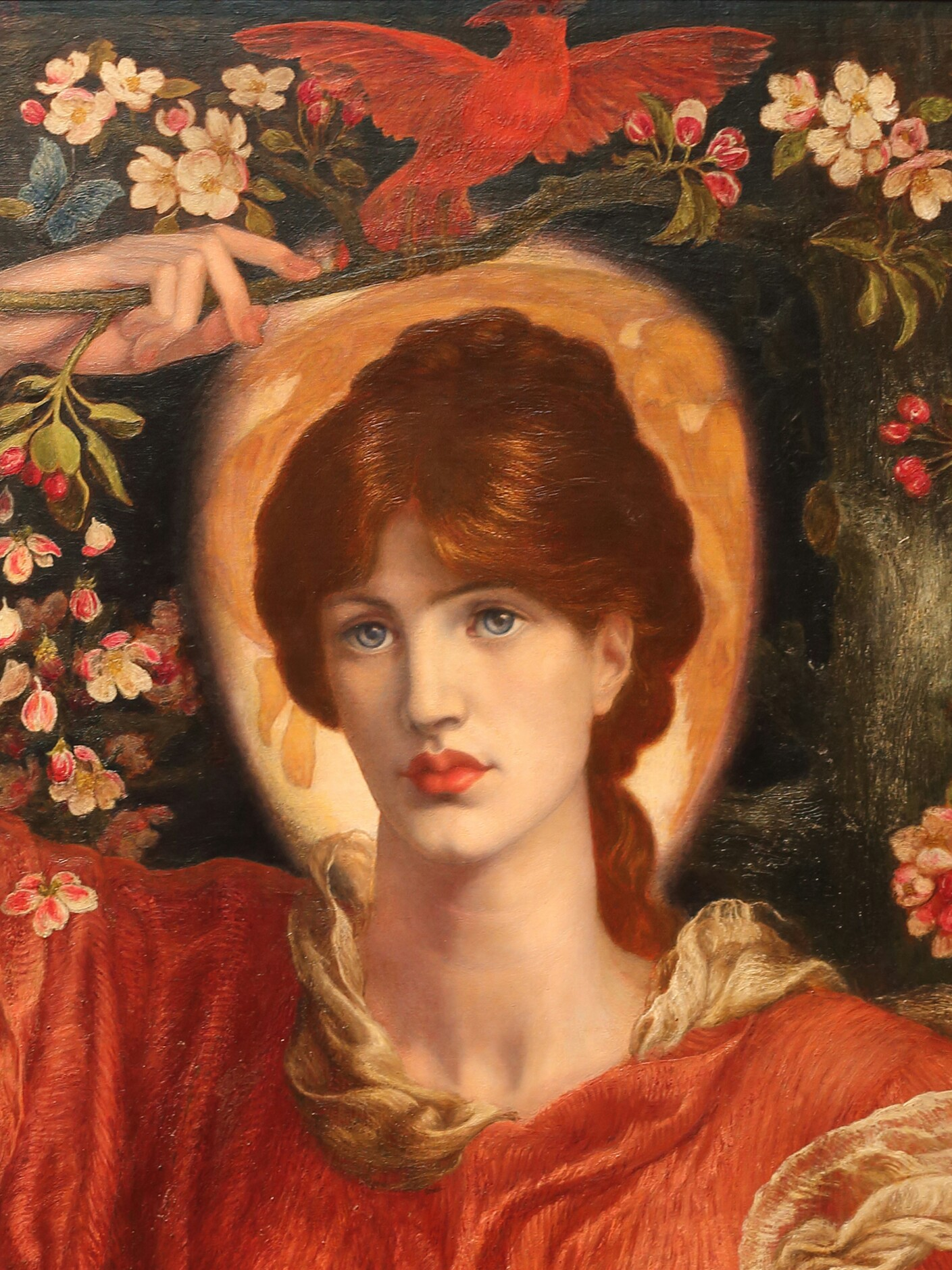 Detail.